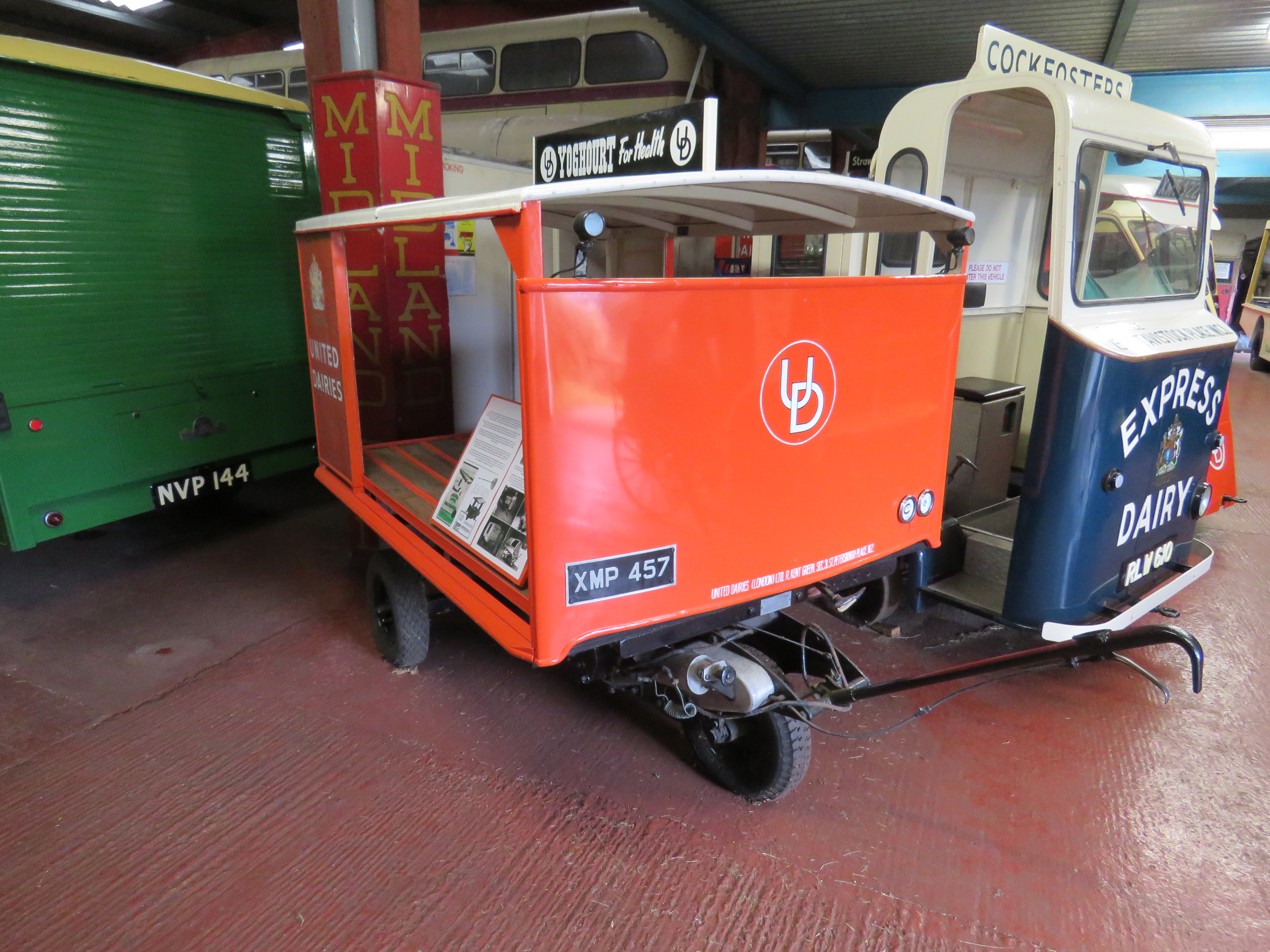 A Graiseley Model 90 pedestrian controlled vehicle with a milk float body at the Transport Museum, Wythall, England. It dates from 1951-1952 and carries the registration number XMP 457.